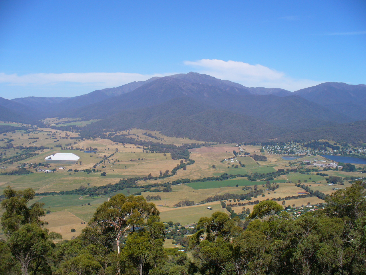 Mt Bogong - Victoria's highest peak (1986m asl)